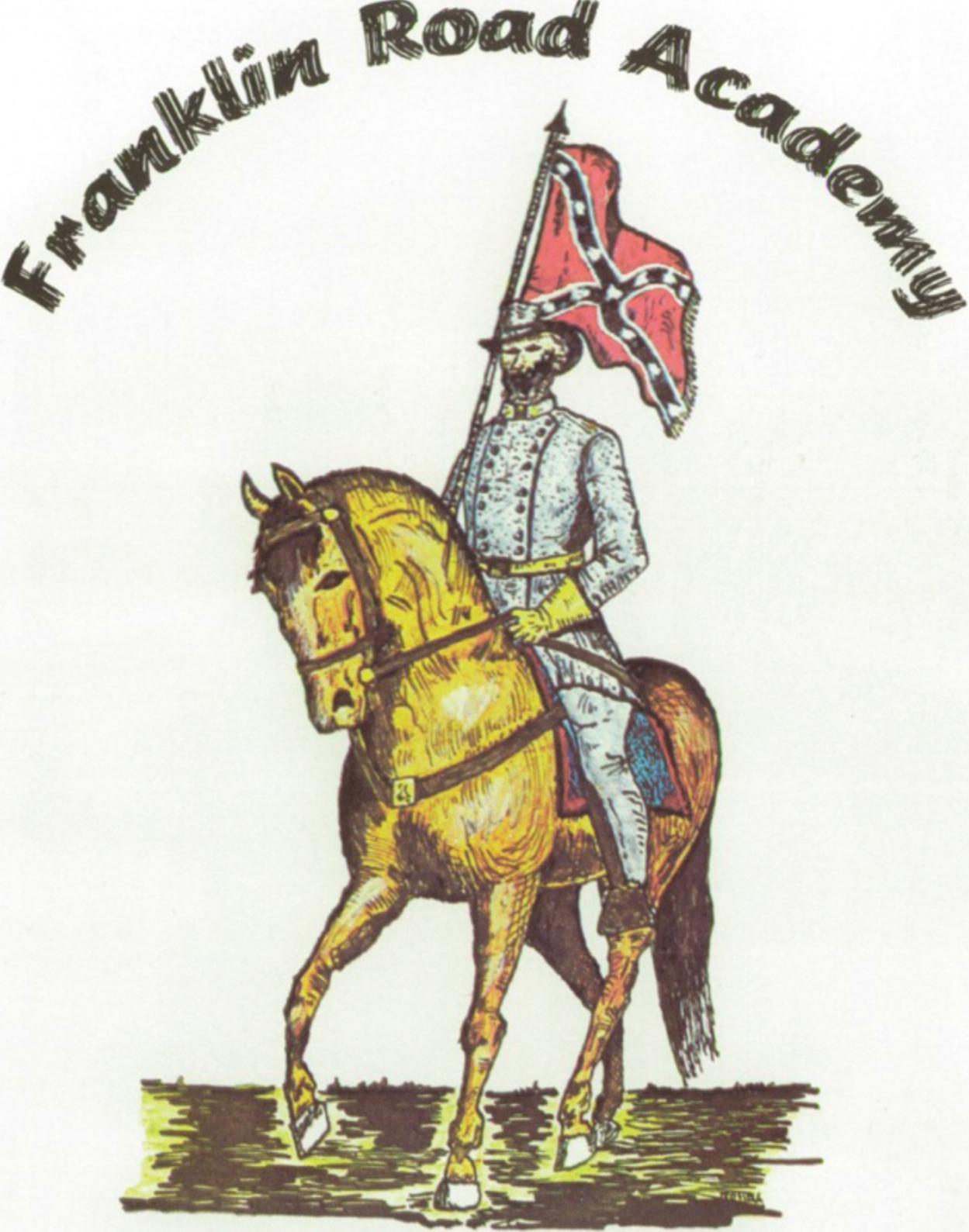 The Mascot of Franklin Road Academy in Nashville, TN was the Rebels until the late 1990s.